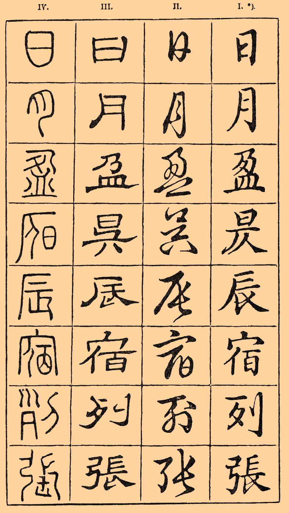 Illustration from Brockhaus and Efron Encyclopedic Dictionary (1890—1907)